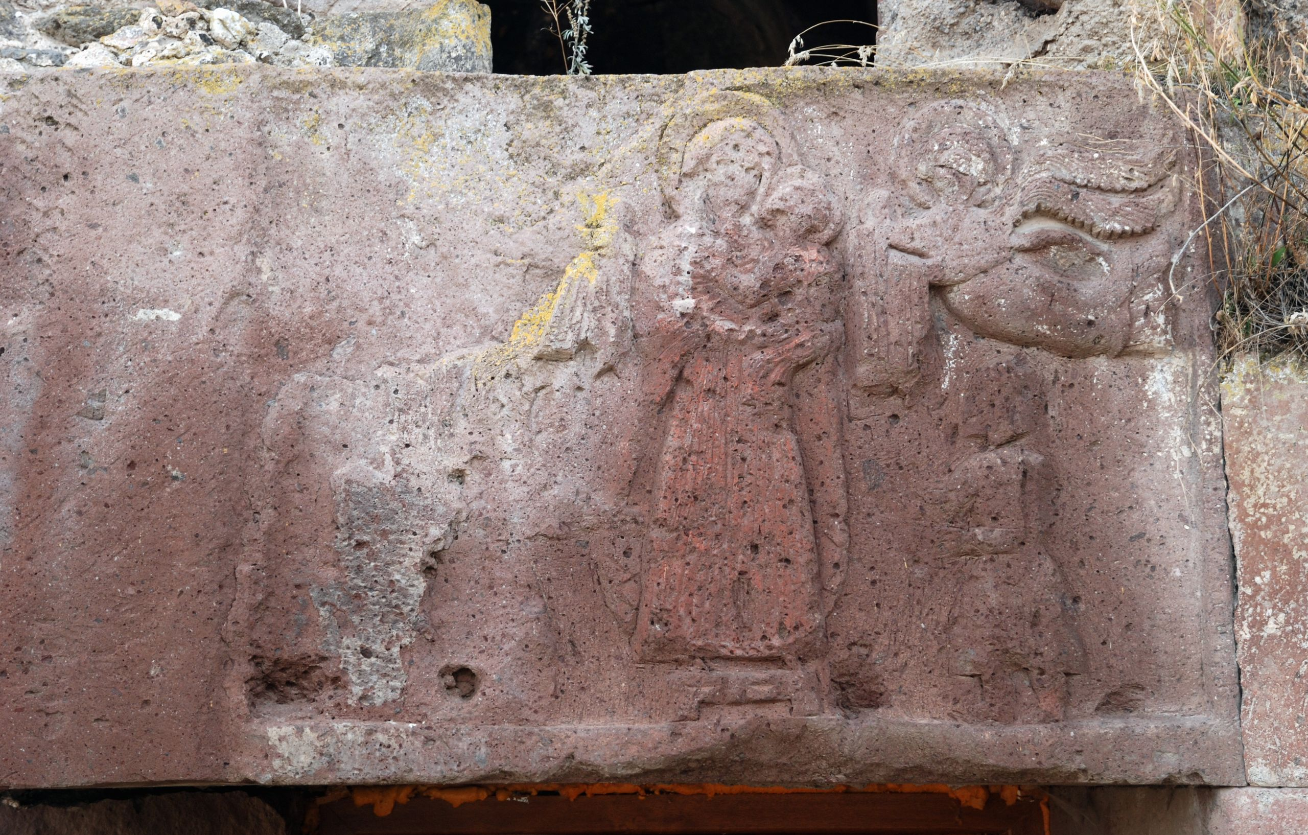 Pemzashen, lintel main church